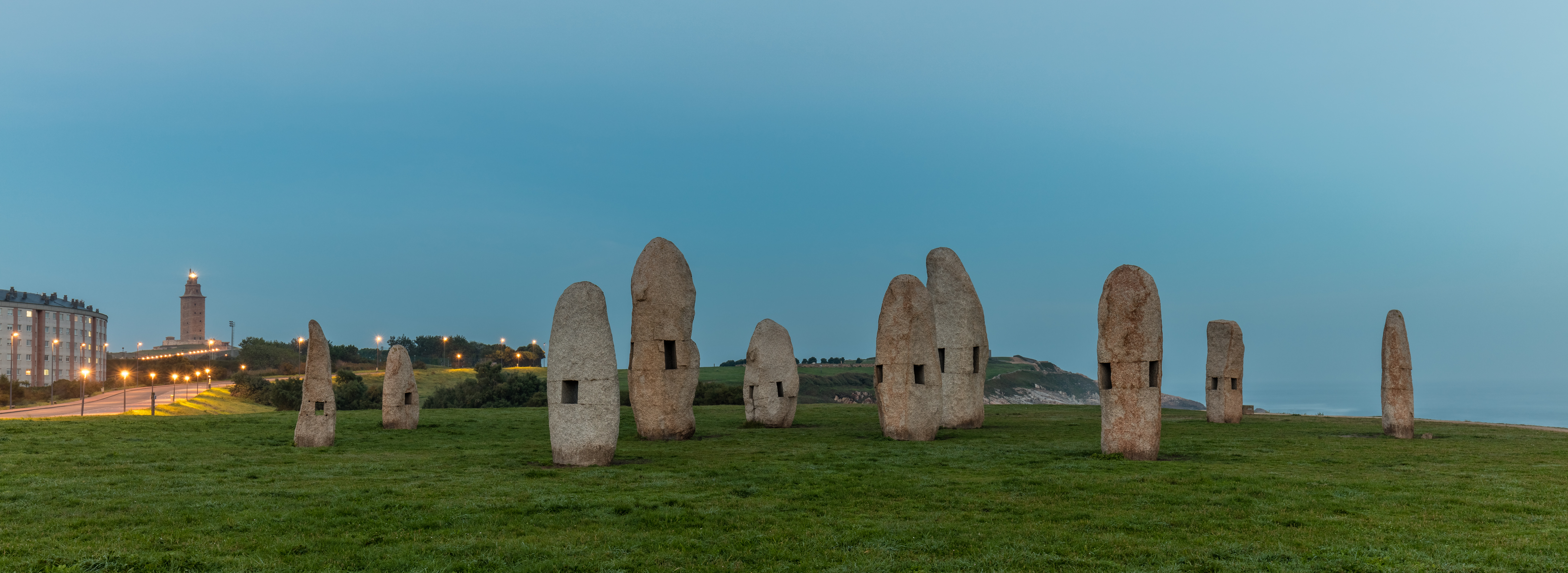 The Menhirs, Tower Park, La Coruña, Spain